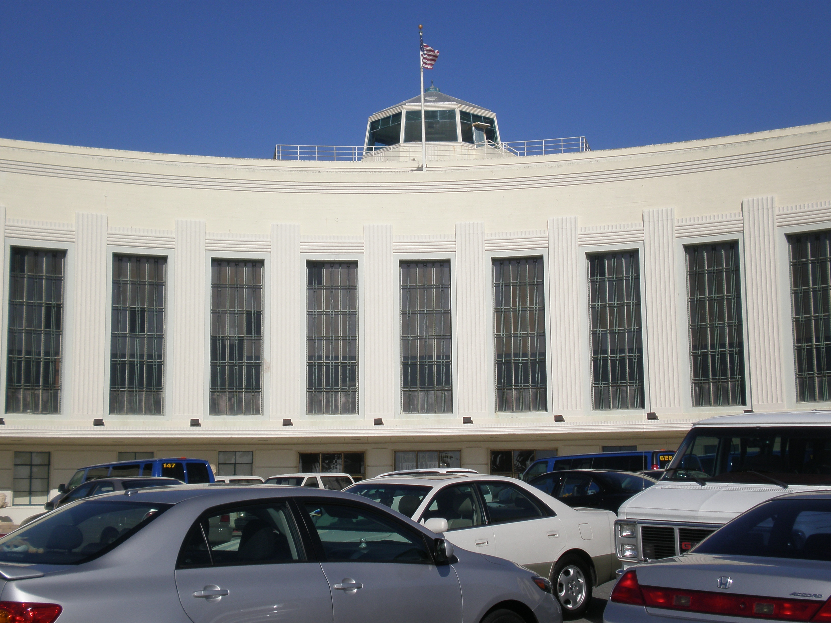 Building One, Treasure Island, California.